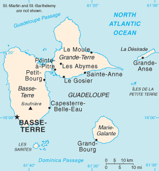 Map of the French overseas département of Guadeloupe showing major cities.